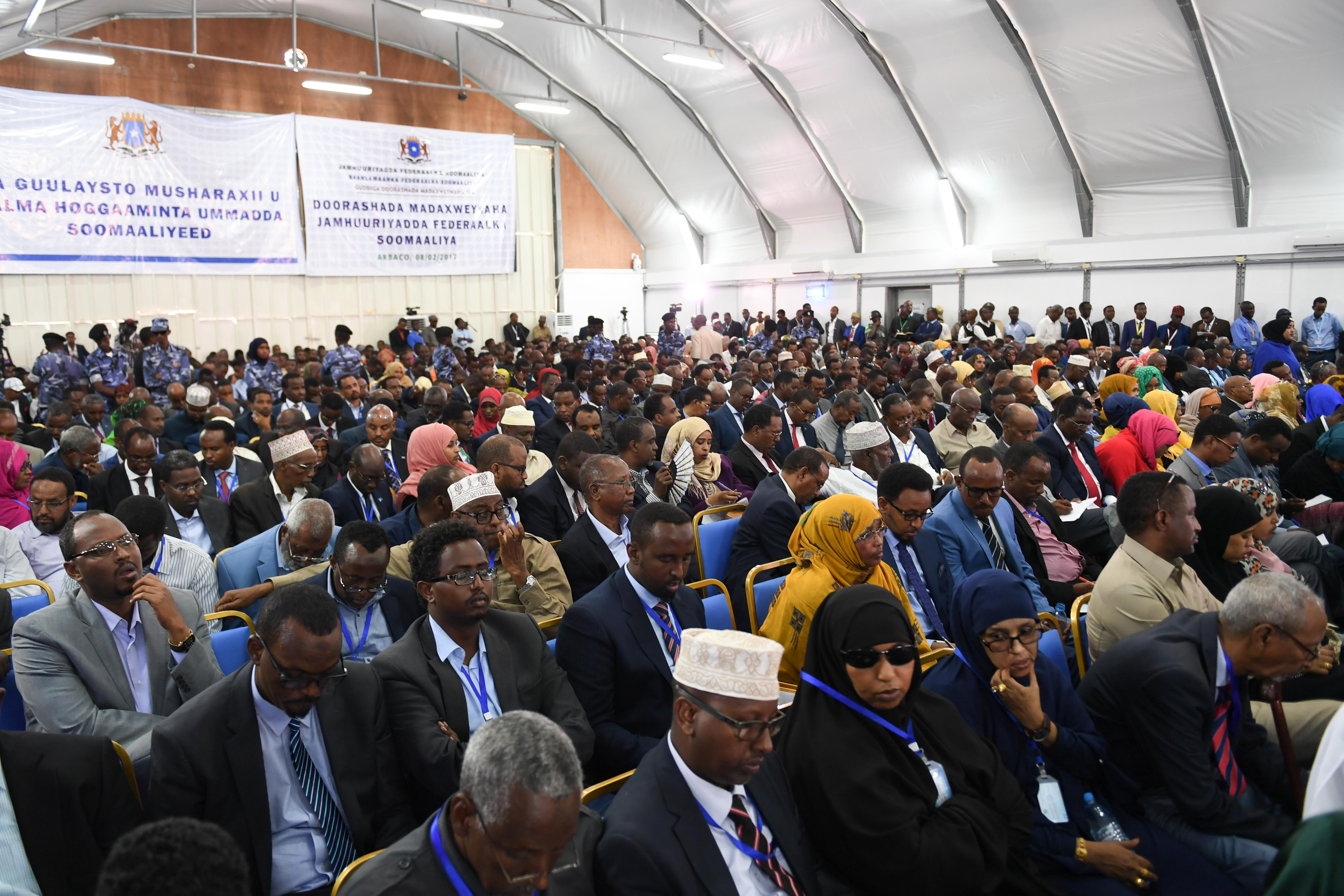 Somali Members of Parliament gathered to cast their votes for the country's next president in Mogadishu, Somalia on 8 February 2017, in Mogadishu, Somalia. AMISOM Photo/Ilyas Abukar